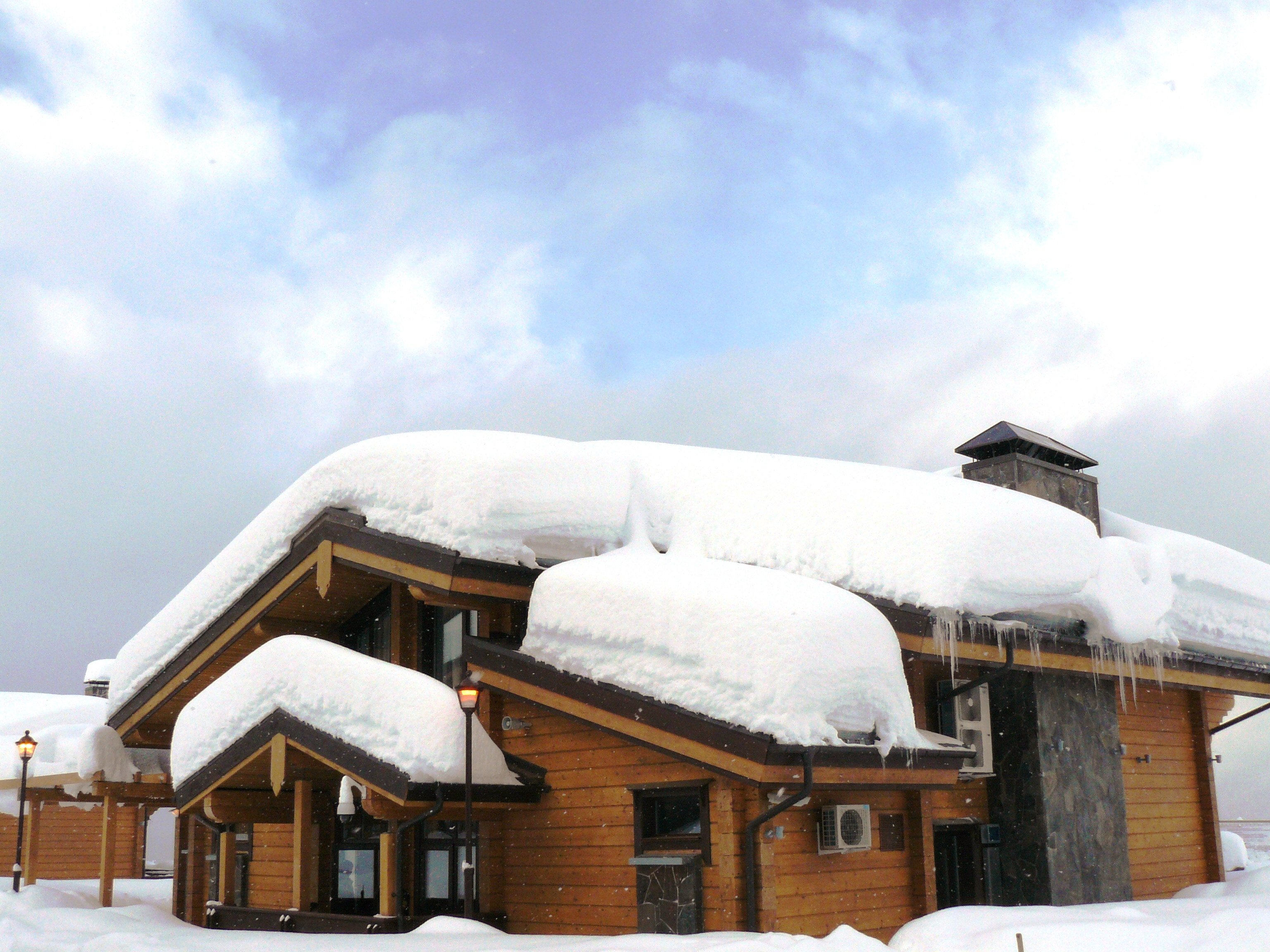 Mountain Ridge